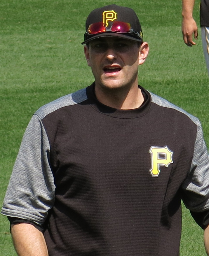 Daniel Hudson.